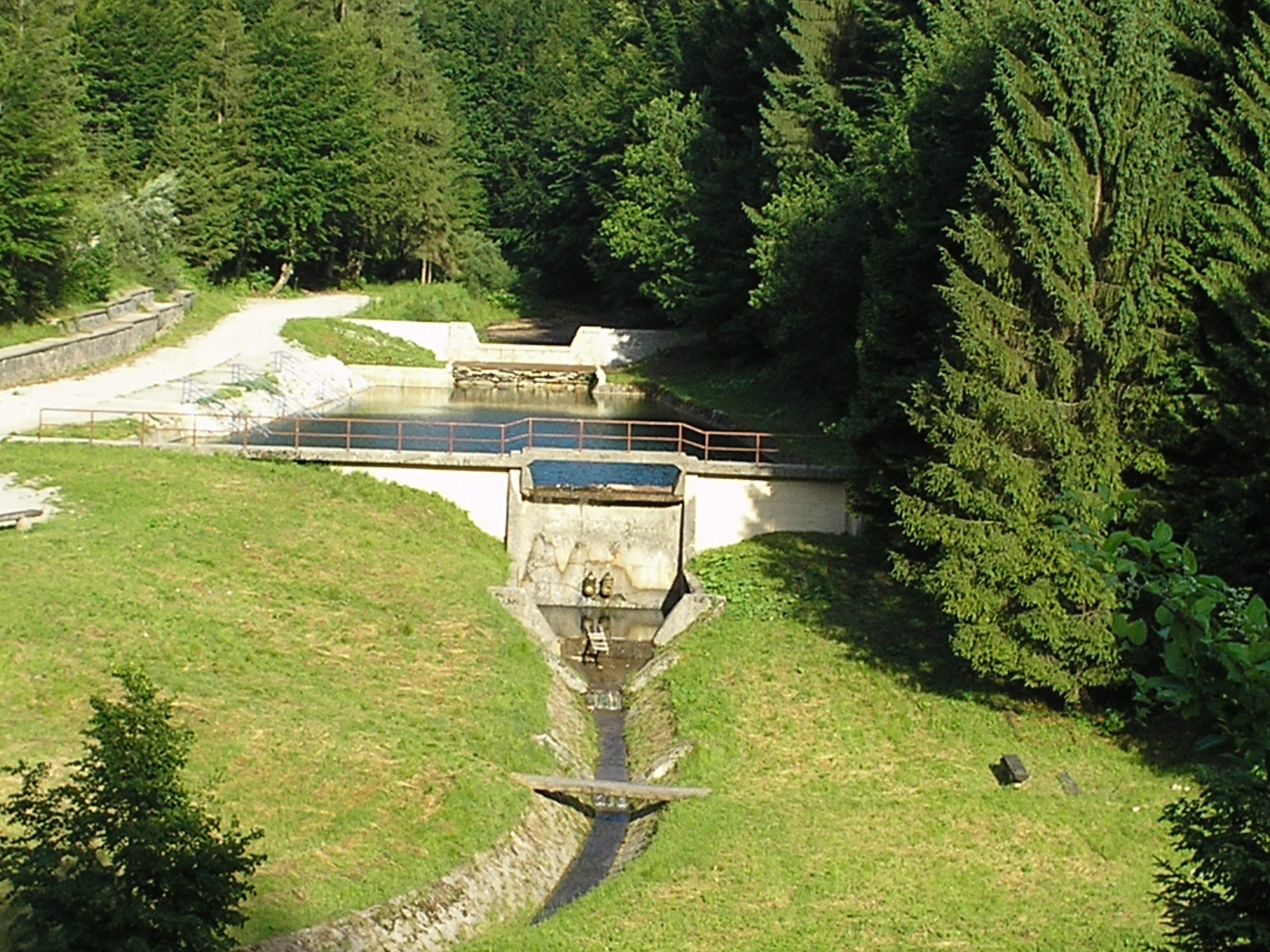 Delnice stream